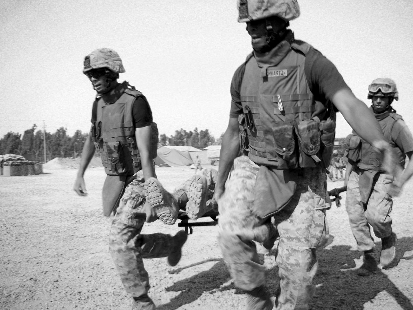 Marines of Regimental Combat Team 5, transport a non-ambulatory patient via litter, outside of Fallujah, Iraq in 2006.